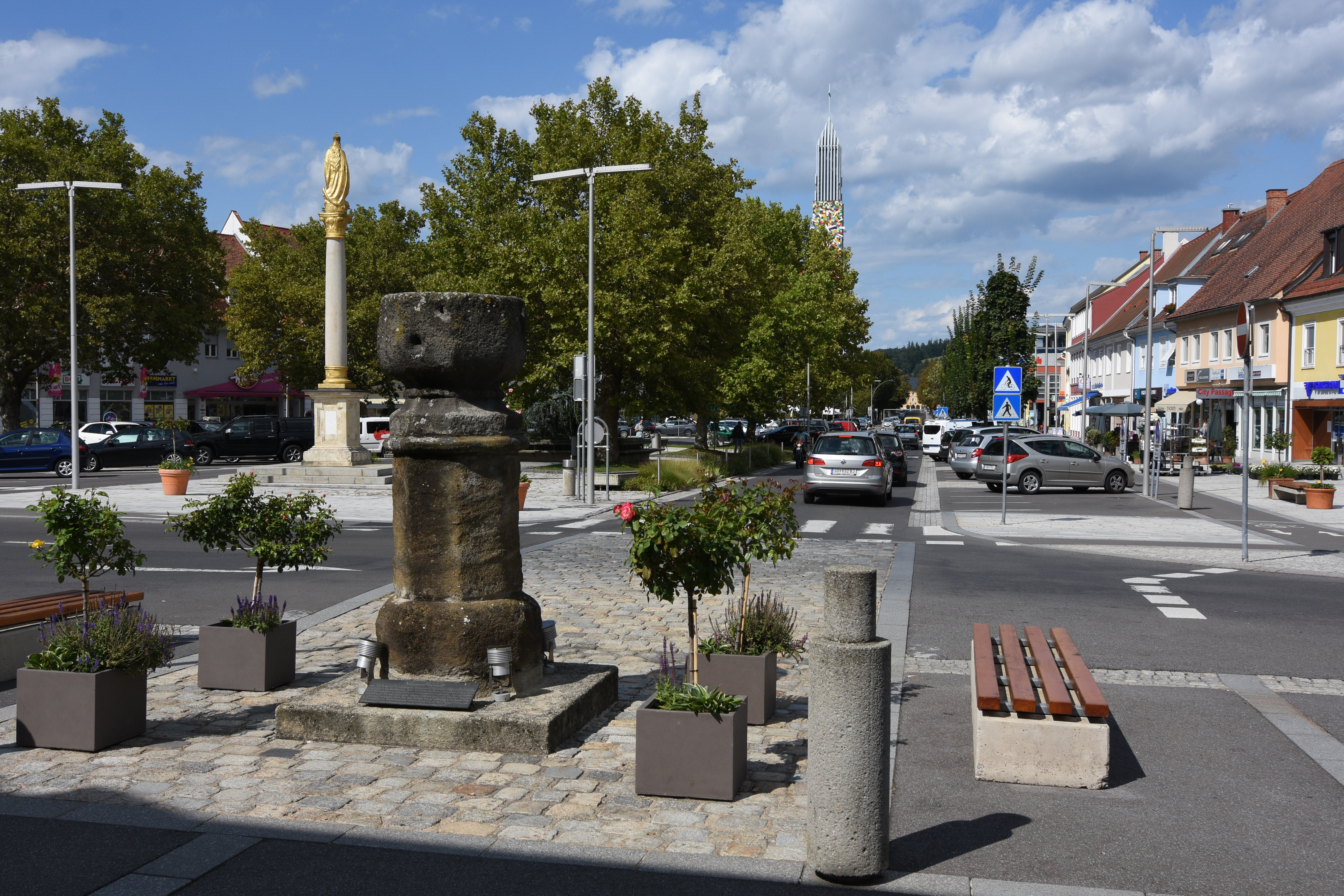 Main square Feldbach with Metzen and Maria column.